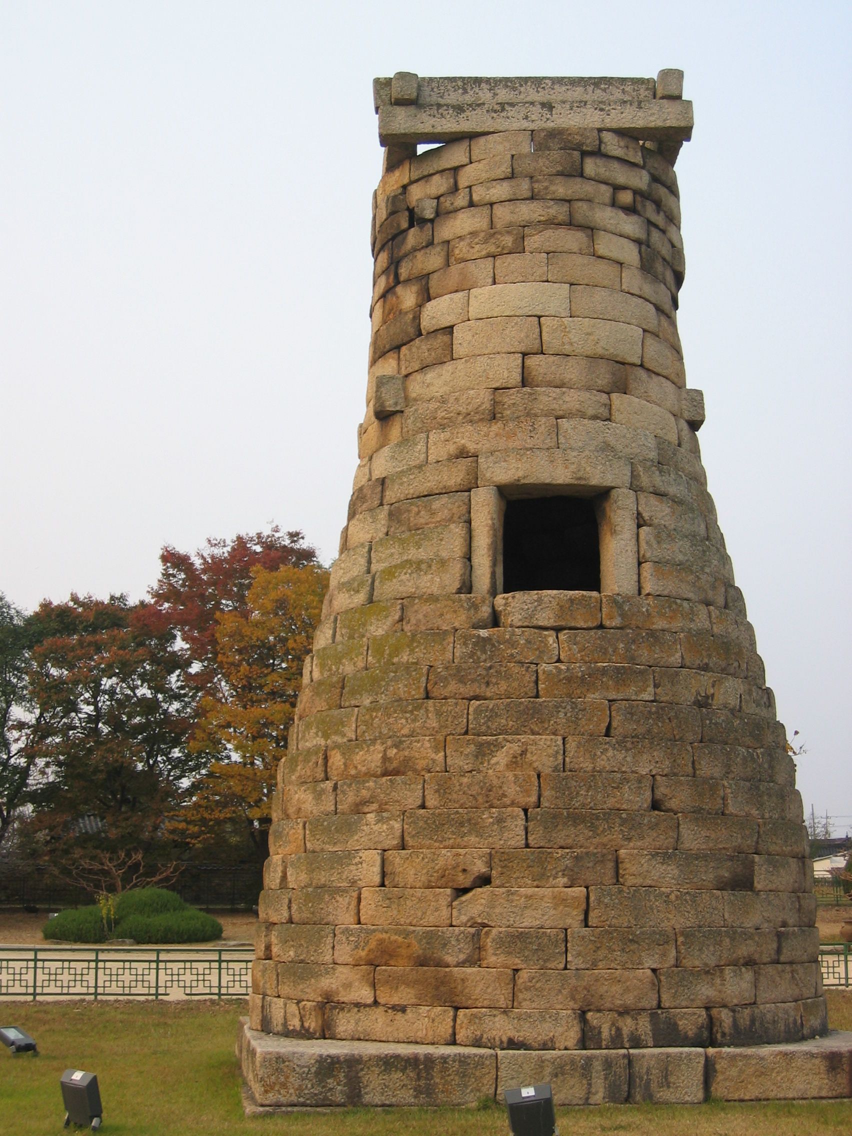 Cheomseongdae astronomical observatory in Gyeongju